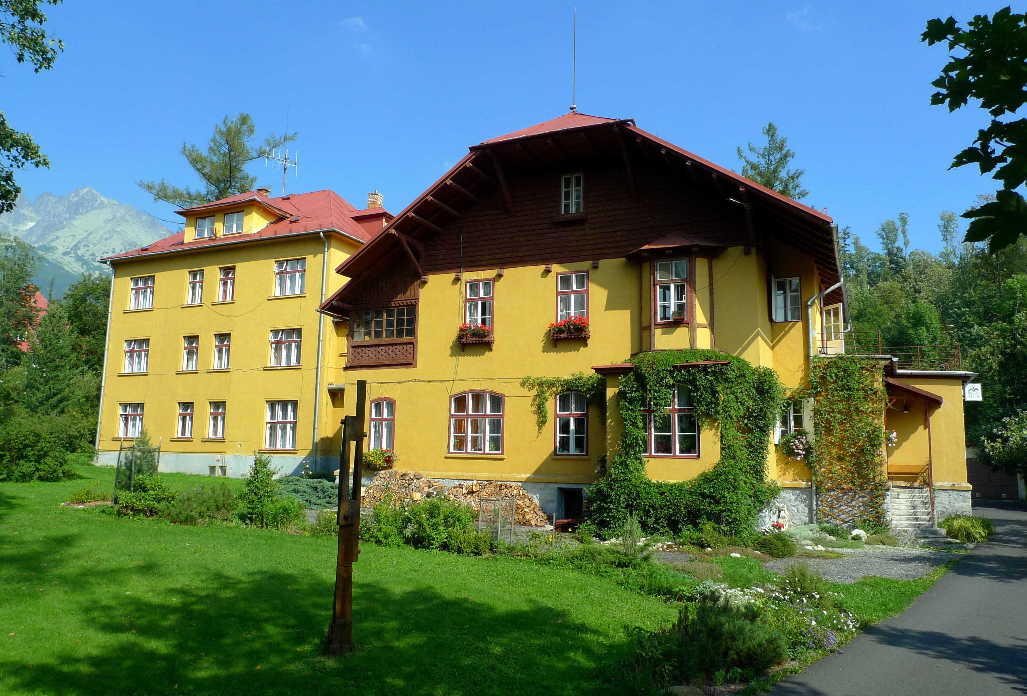 Vila Bělín in Tatranská Lomnica in Slovakia. Česky: Vila Bělín v Tatranské Lomnici na Slovensku.